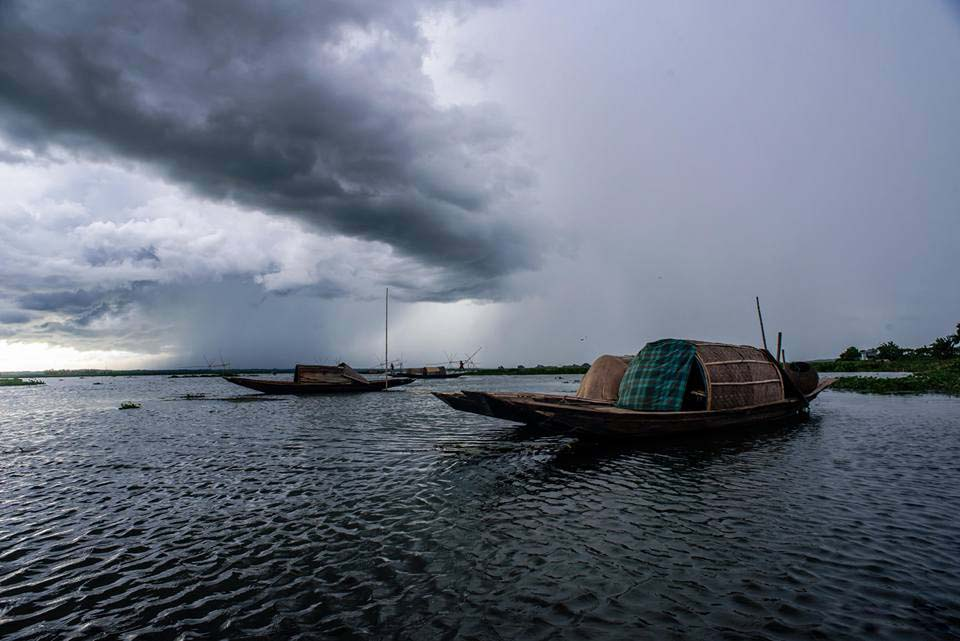 Beauty of Nature